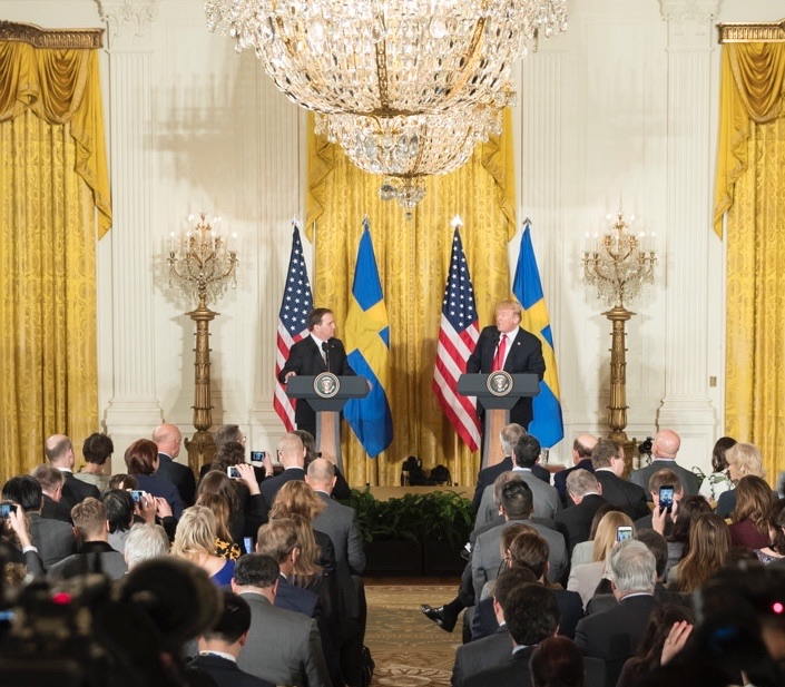 President Donald J. Trump and Swedish Prime Minister Stefan Löfven participate in a joint press conference in the East Room at the White House, Tuesday, March 6, 2018, in Washington, D.C. (Official White House Photo by Stephanie Chasez)